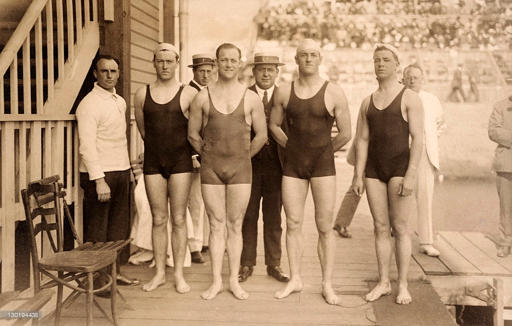 The silver medal winning 4 x 200 metre freestyle relay team from Australia at the Olympic Games in Antwerp, circa August 1920. Left to right: Frank Beaurepaire, William Herald, Ivan Stedman and Keith Kirland.